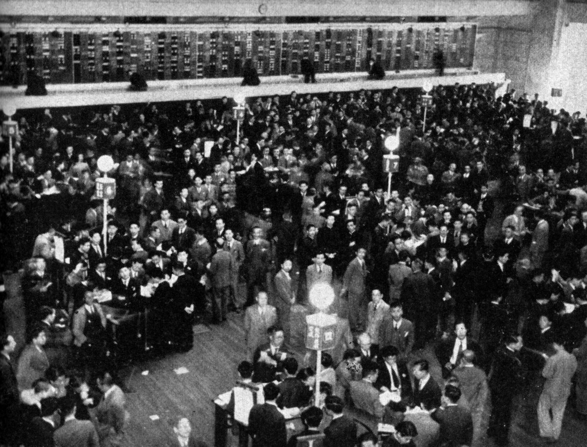 "Tokyo Stock Exchange: Trading at the Tokyo Stock Exchange reflects Japan's rising level of economic activity." Sep 1, 1950